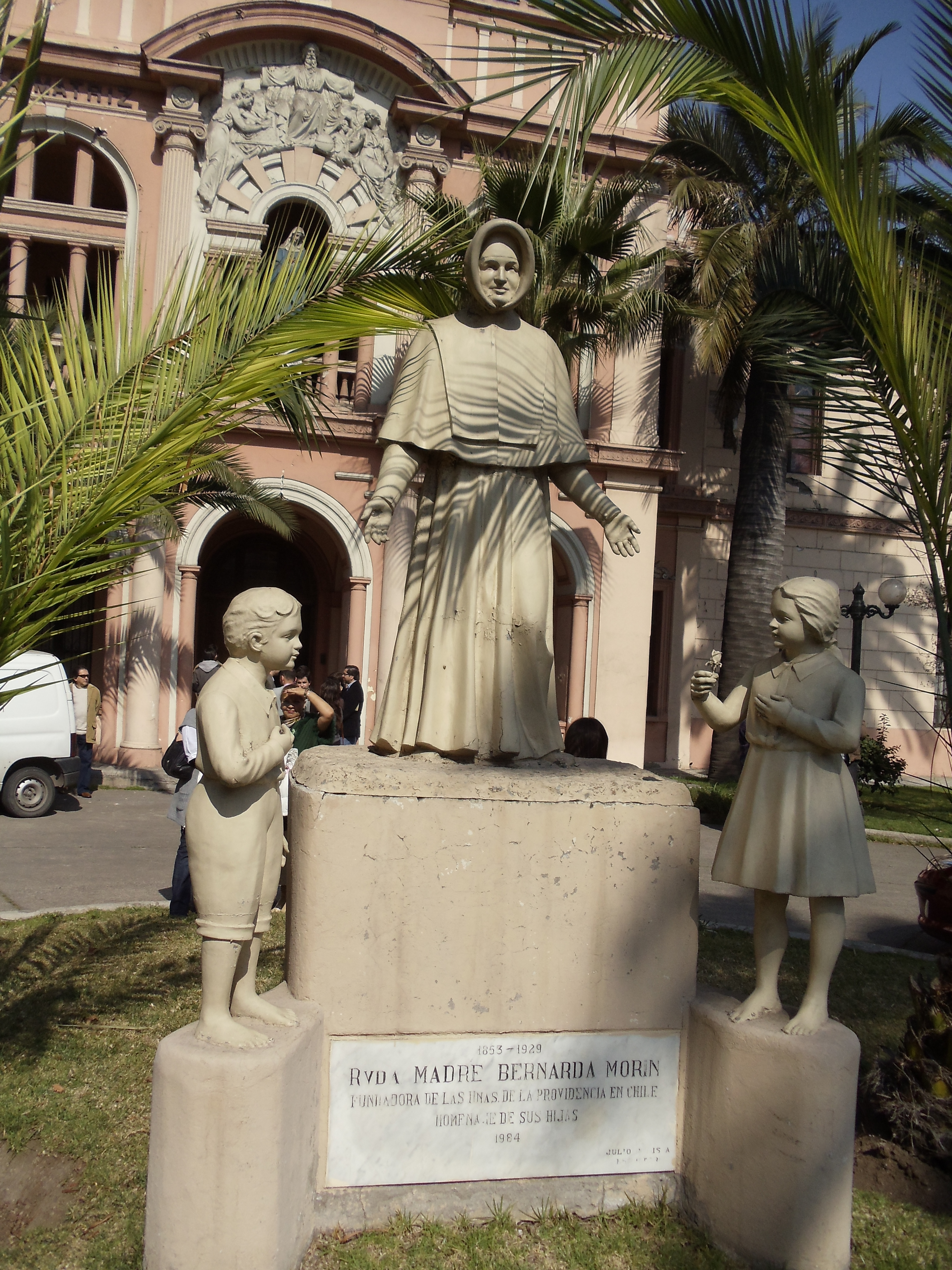 Statue of Bernarda Morin in Providencia/Santiago de Chile